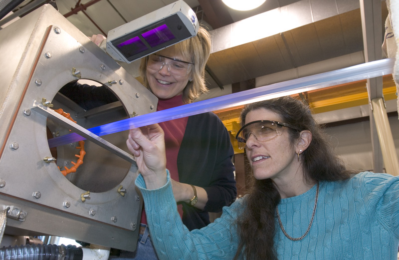 Extruded plastic scintillator fluorescing under UV inspection lamp at Fermilab for the MINERvA (Main INjector ExpeRiment Neutrino-A) project. From: [1]